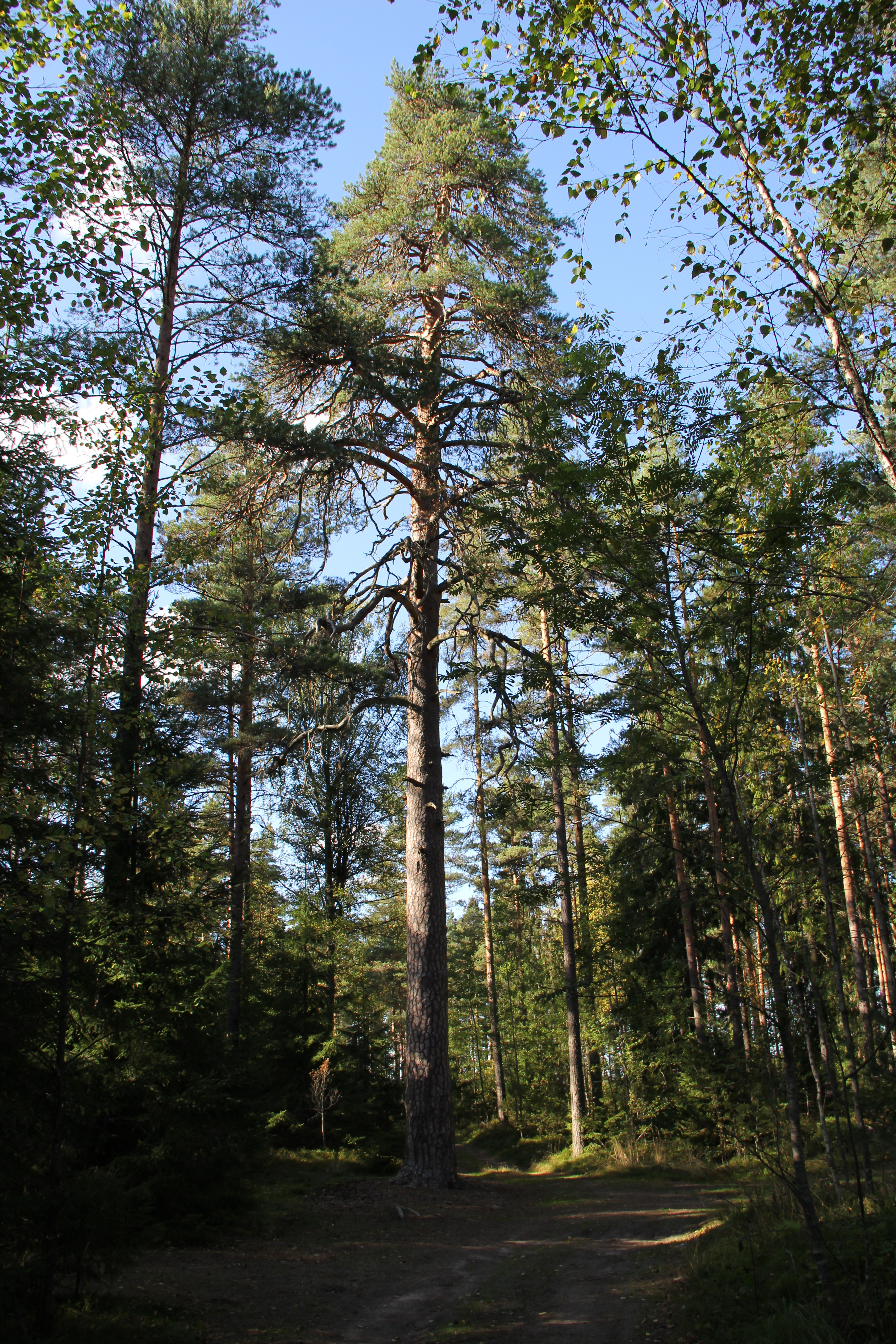 Rotomänty, Pinus sylvestris, Lahnajärvi, Salo, Finland.